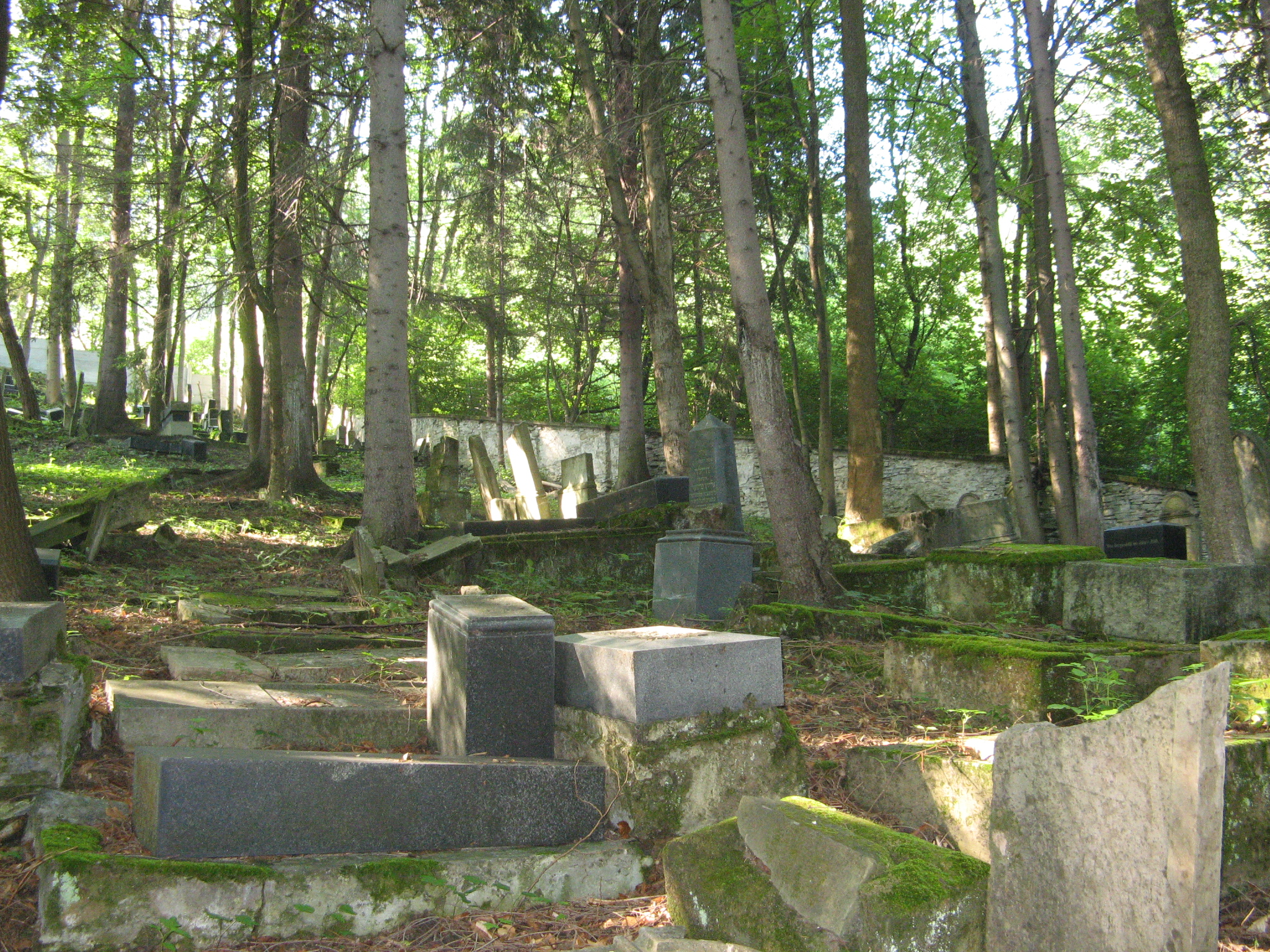 Jewish cemetery in Dolny Kubin